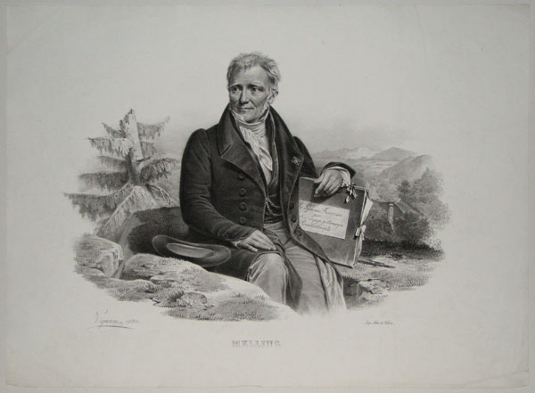 Antoine Ignace Melling, 1830